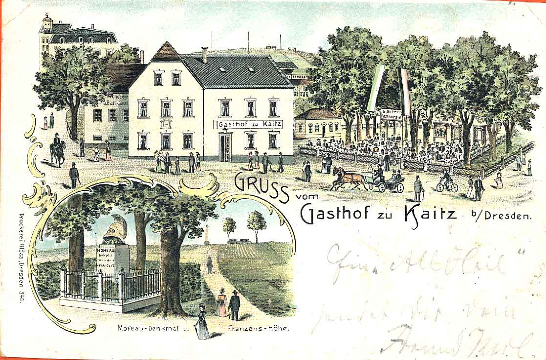 guesthouse Kaitz near Dresden with Moreau memorial and Franzenshöhe, today Räcknitzhöhe